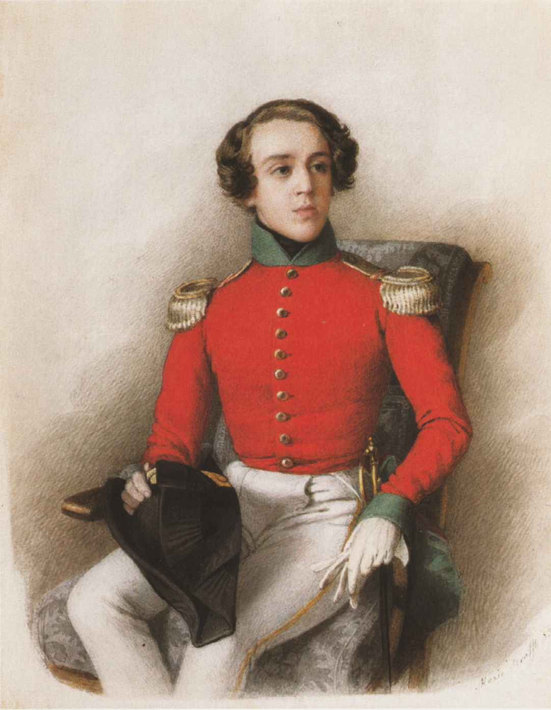 The Viennese art historian and orientalist Albrecht Krafft (1816-1847). Watercolour, 24.7 x 19.7 cm. Signed and dated. Collection: Wien Museum